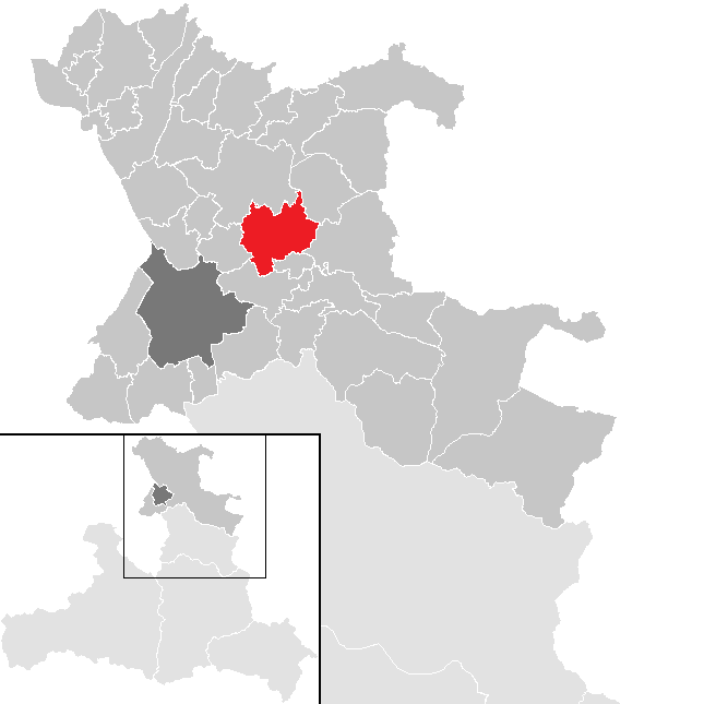 District Salzburg-Umgebung